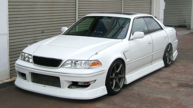 Tuned Toyota Mark II